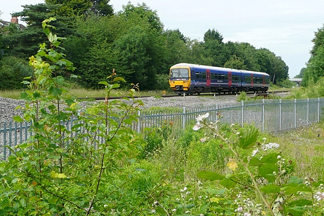 Southcote junction Southcote junction is the point where the lines from Reading to Basingstoke and Reading to Taunton via Newbury diverge. The 2-car class 165 unit is on a Reading to Basingstoke service. There used to be another junction here, and I am standing on the route of the former Coley branch line that close in 1983. In the background is the road bridge at Bath Road.